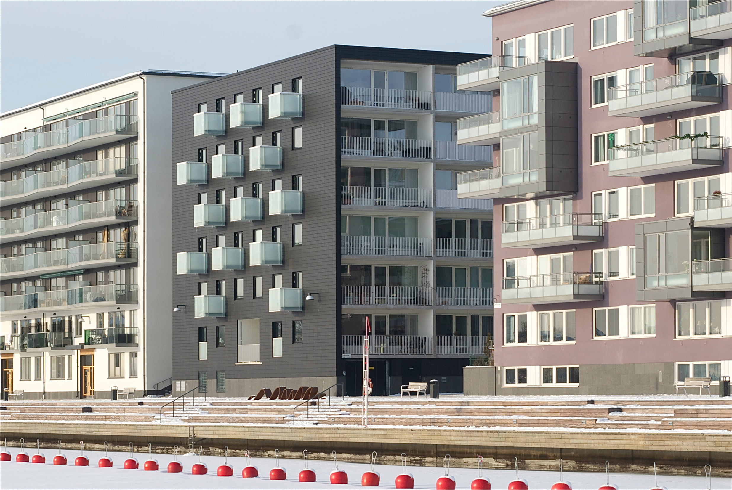 Newly built houses in Henriksdalshamnen (part of Hammarby sjöstad), Stockholm.